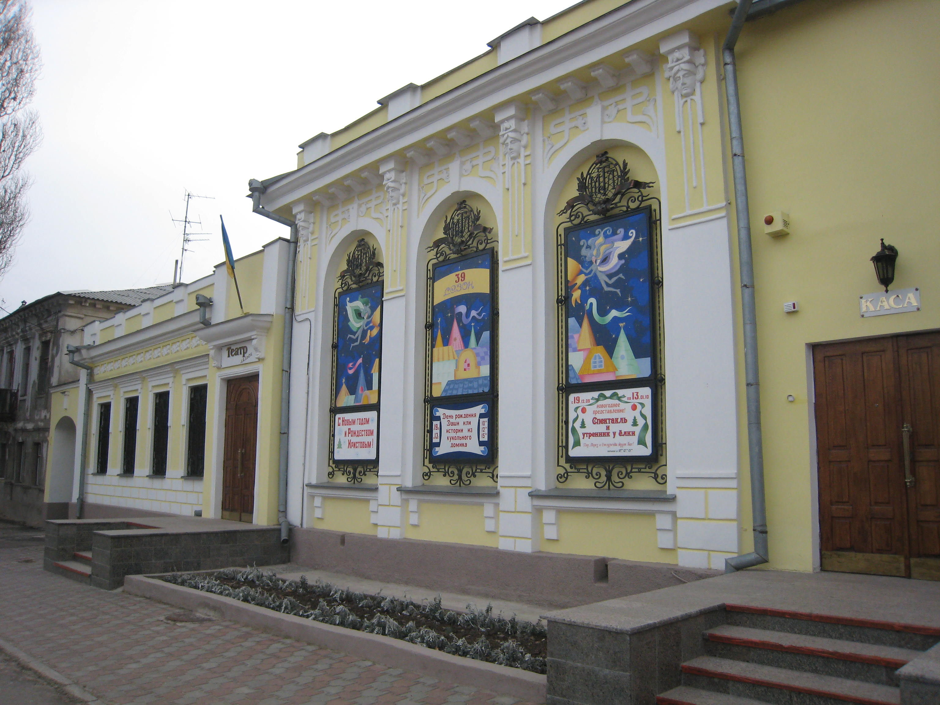 Mykolaiv regional puppet theatre.